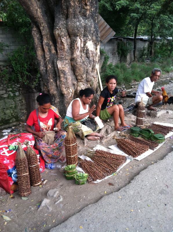 Women selling betel nut outside of the market in Dili